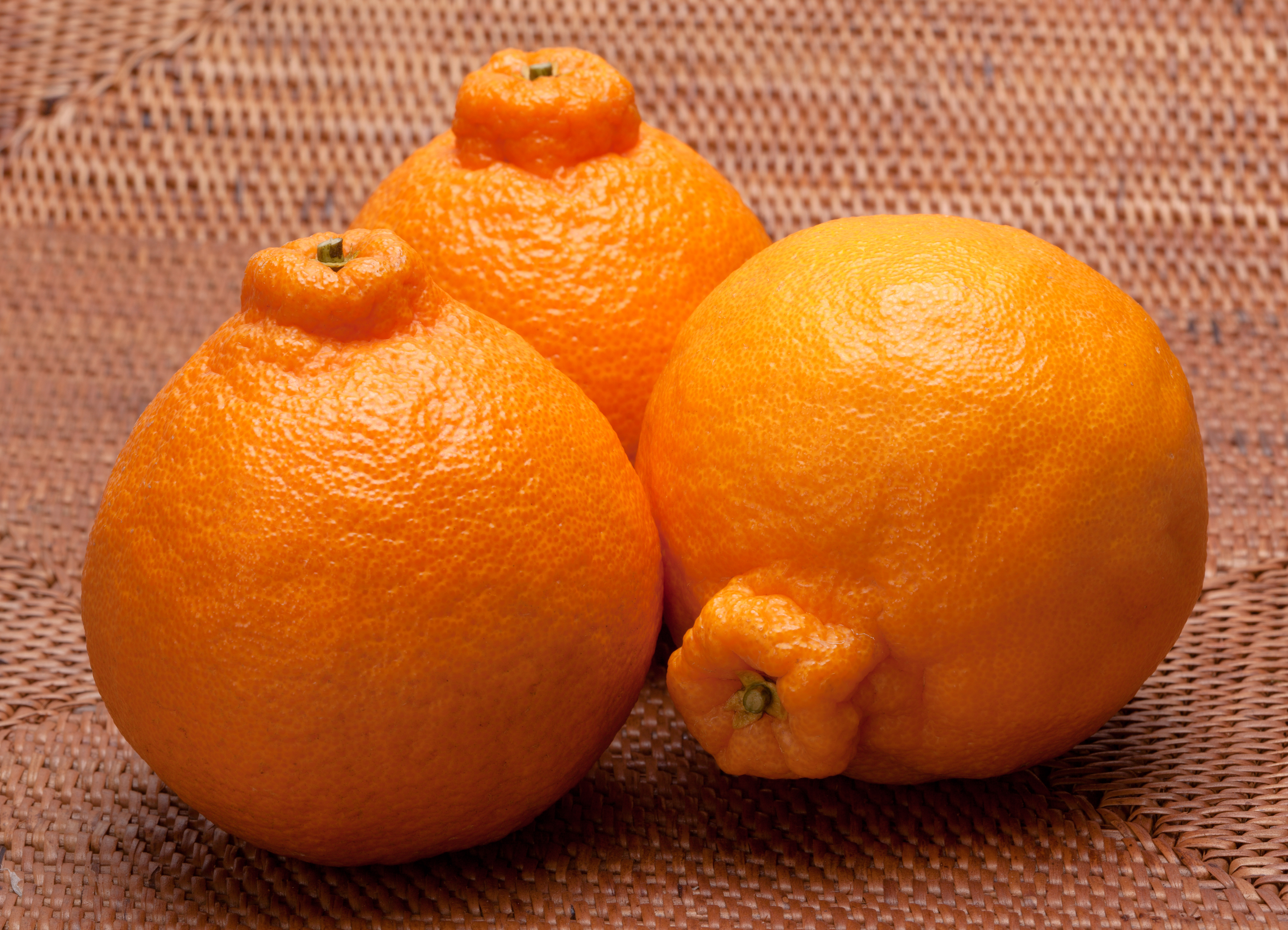 Dekopon citrus fruit (Citrus reticulata Siranui)